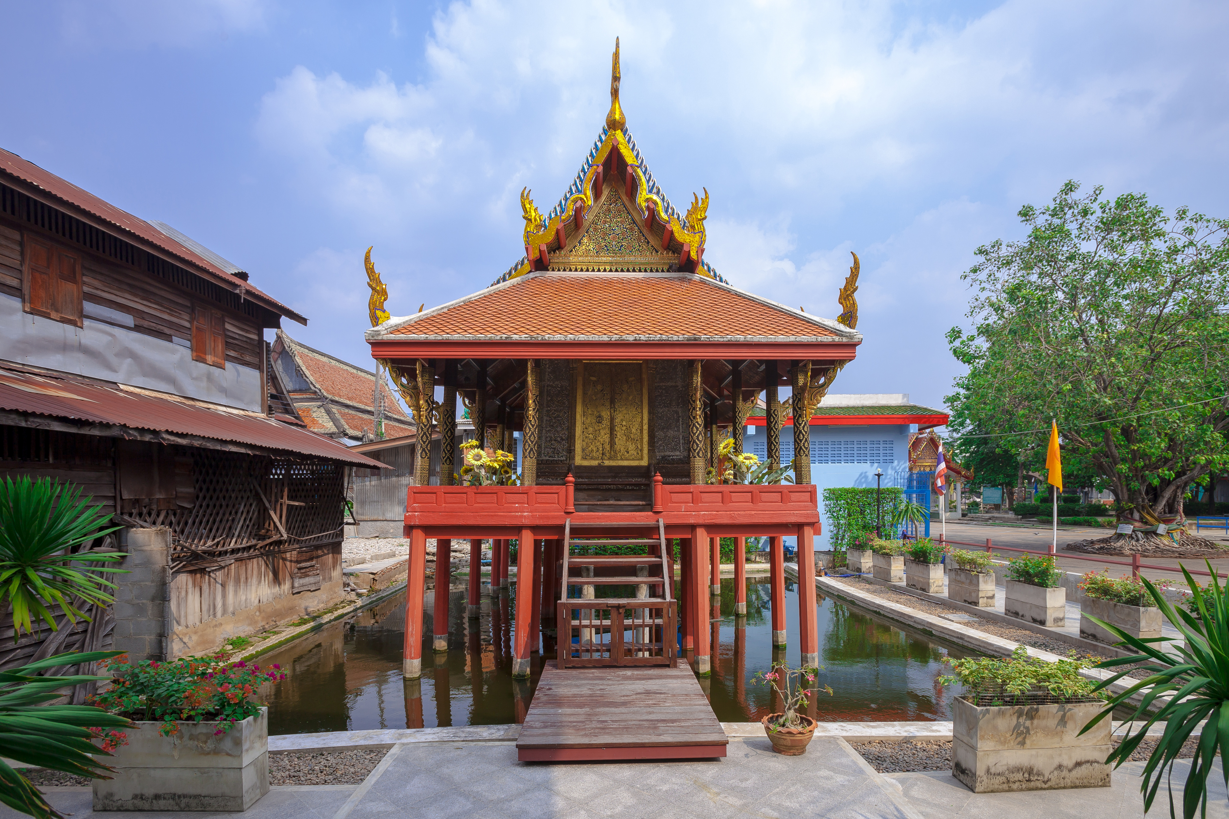 Ho trai Wat Apson Sawan, Phasi Charoen, Bangkok.